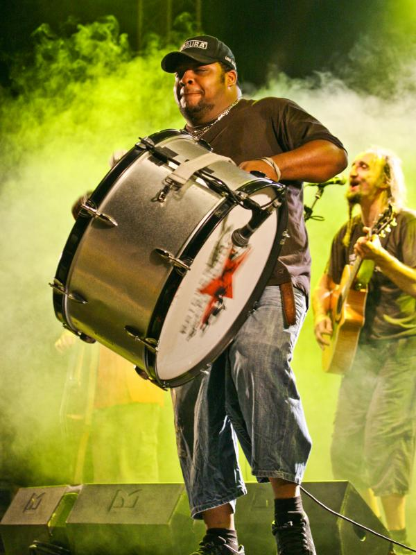 Jose Ramon Caravallo Armas in concert with Bandabardò at Sonica Festival 2009 in Sant'Agata Bolognese